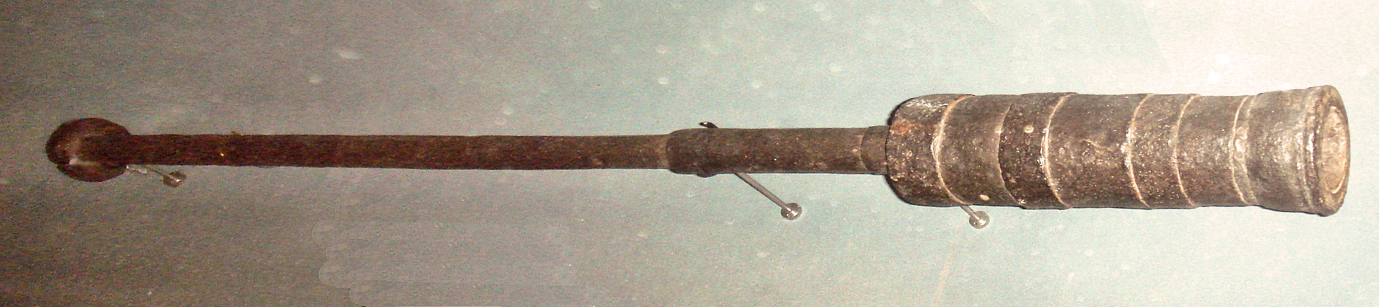 Hand BomQuelle self-made, photographed at the Musee de l'Armee, Paris bbbbbvbard Western Europe, 1390-1400